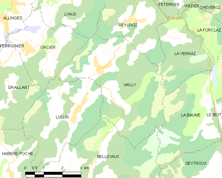 Map of French municipality Vailly